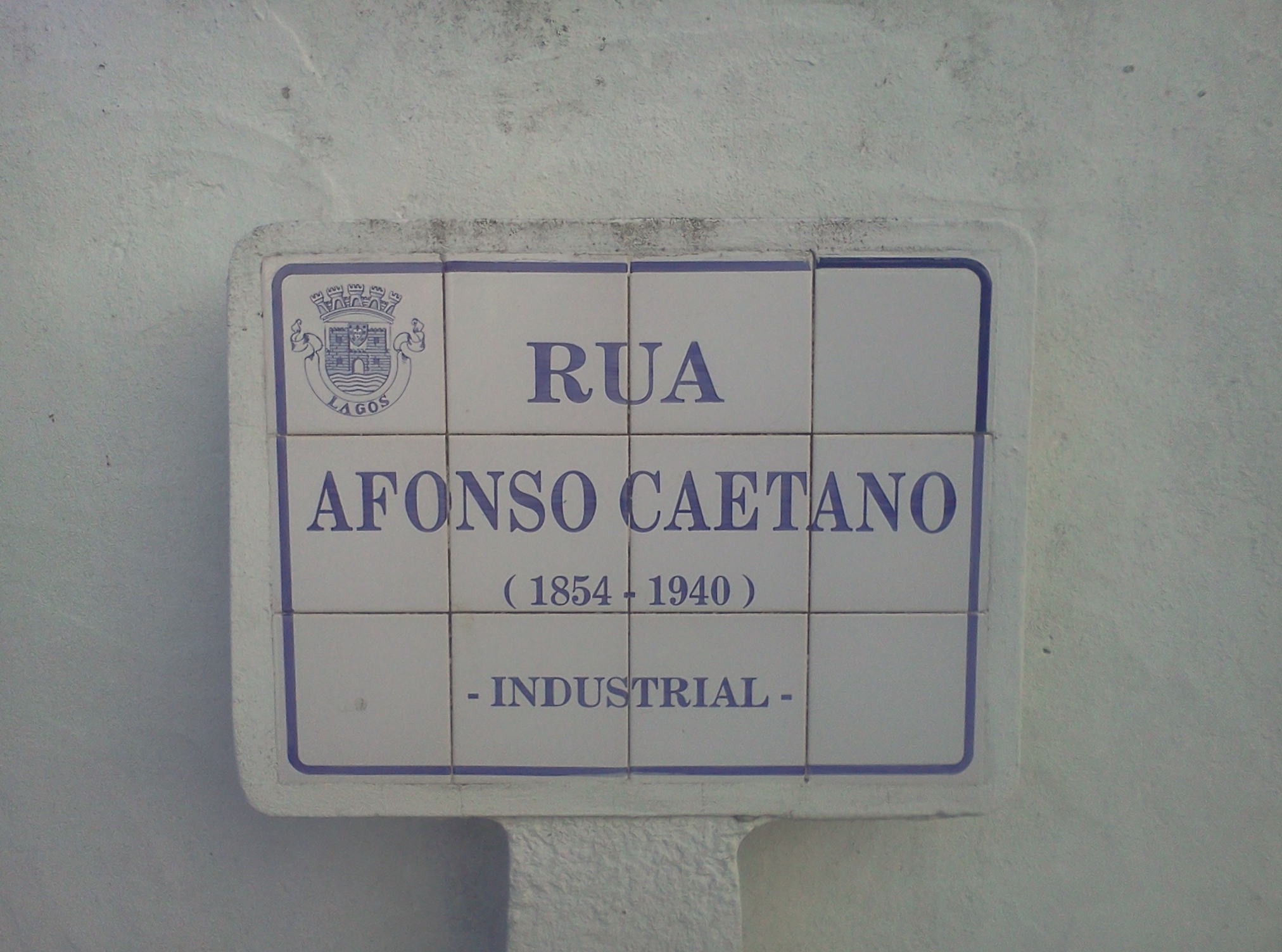 Street sign of Rua Afonso Caetano, in the city of Lagos, in southern Portugal.